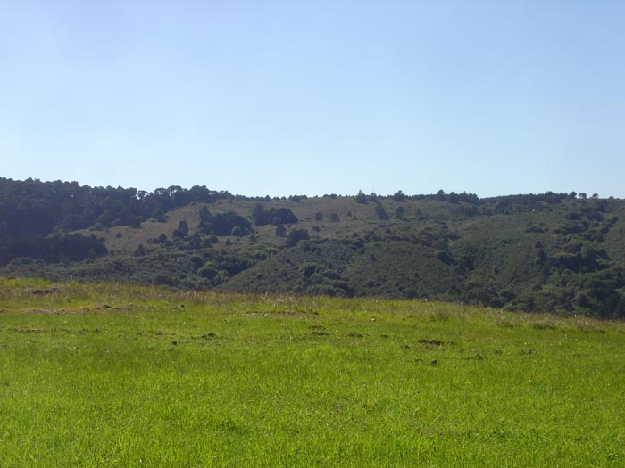 View from the San Mateo Highlands, looking west over the open space on the west side of the neighborhood. Visible is Cahill Ridge, on Montara Mountain in the Santa Cruz Mountain Range. Photo was taken in Feb of 2007.